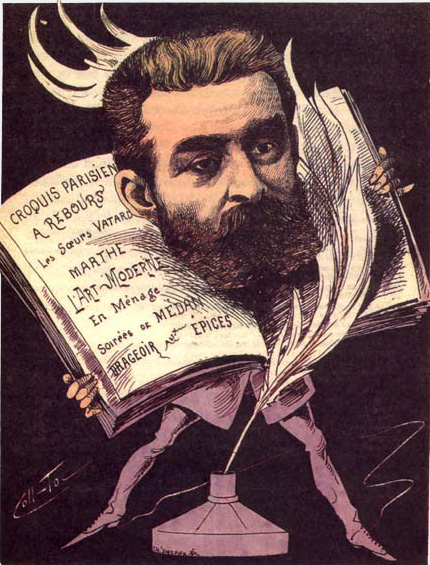 hommes d'aujourd'hui